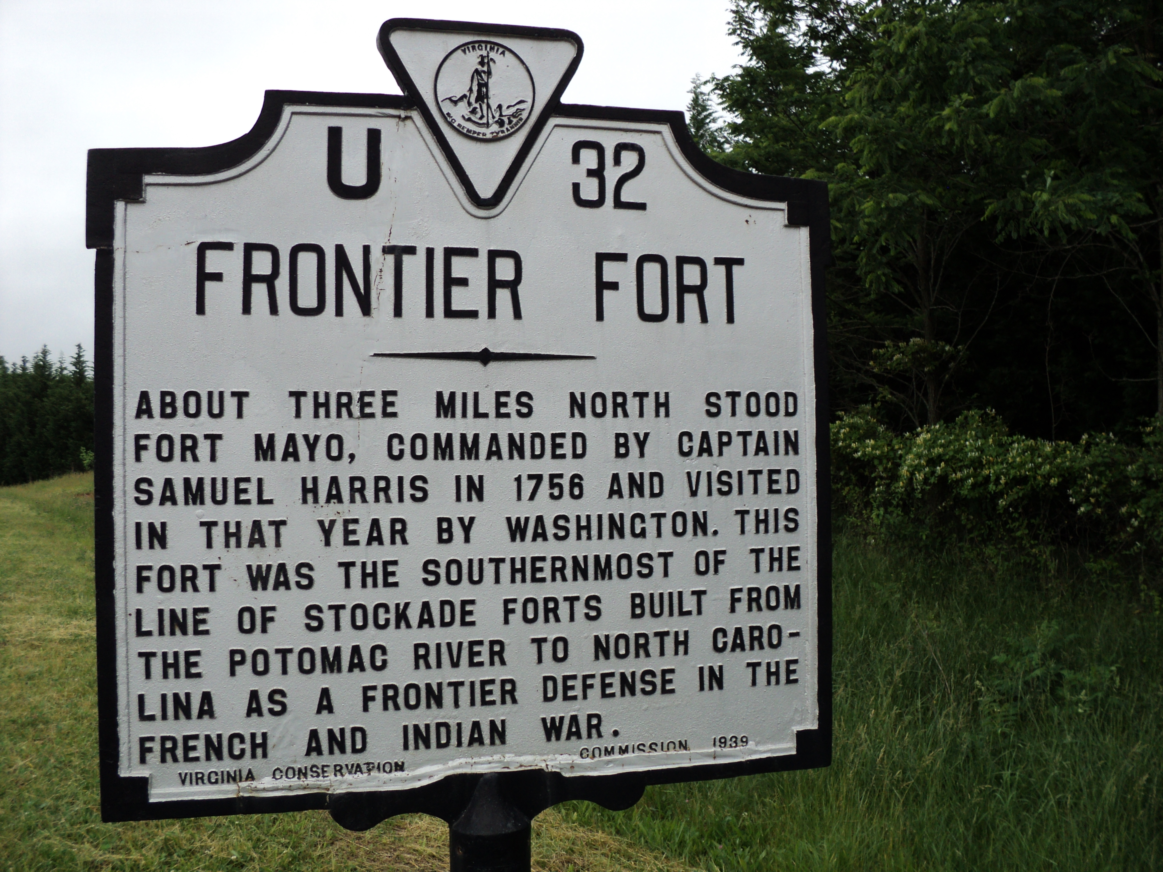 Virginia state historic marker for Fort Mayo, built on the North Mayo River and used during the French and Indian War. Now located in present-day Patrick County, Virginia.